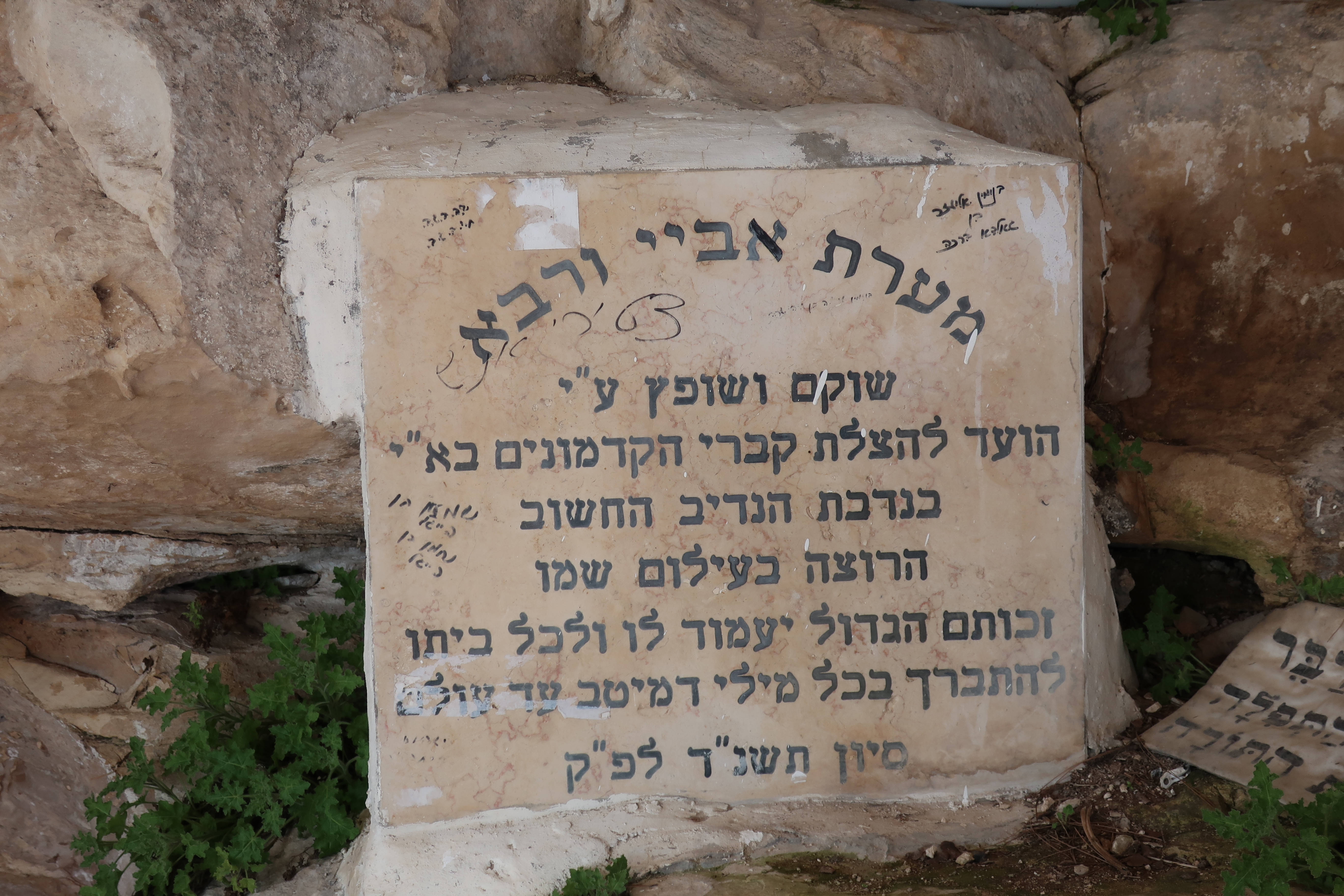 Stone header at alleged cave (burial site) of Abayye and Rava, Har Yavnit in Galilee